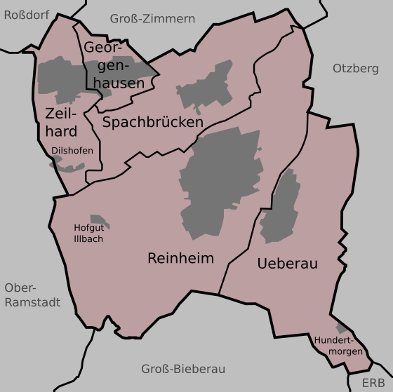 Map of Reinheim devidet into districts